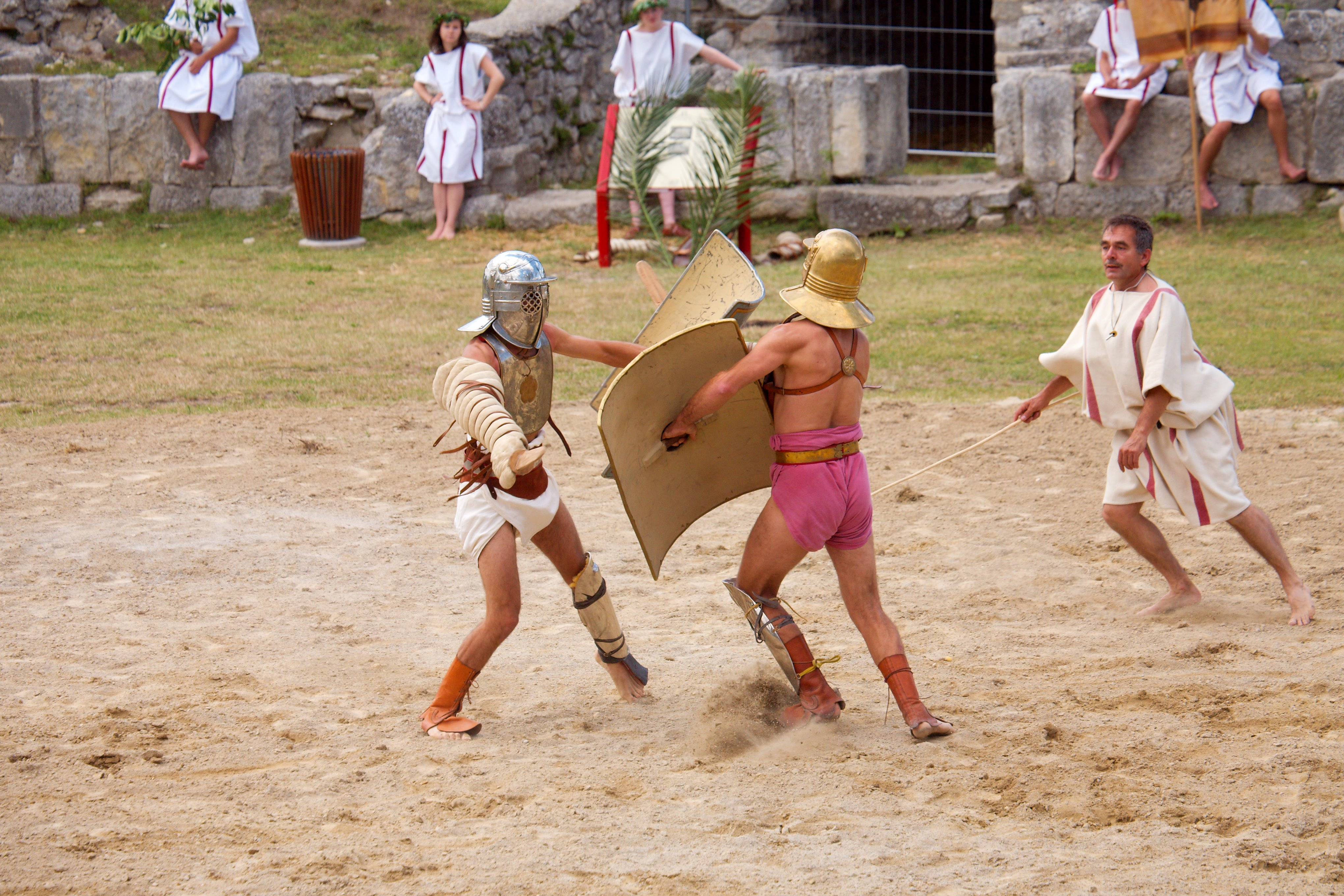 Show fight of the "familia gladiatoria pulli cornicinis" in Carnuntm, Austria.